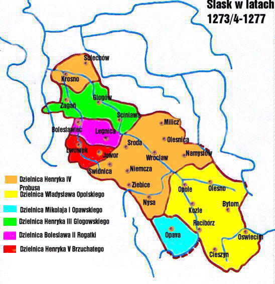 Political map of Silesia 1273-1277